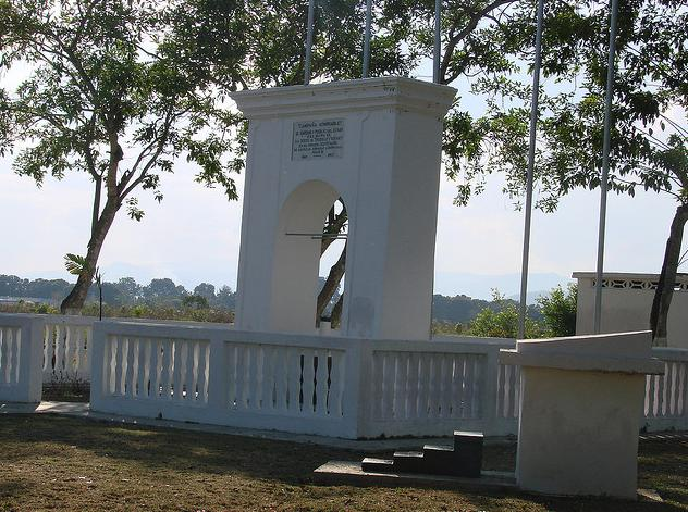 Arco de Taguanes